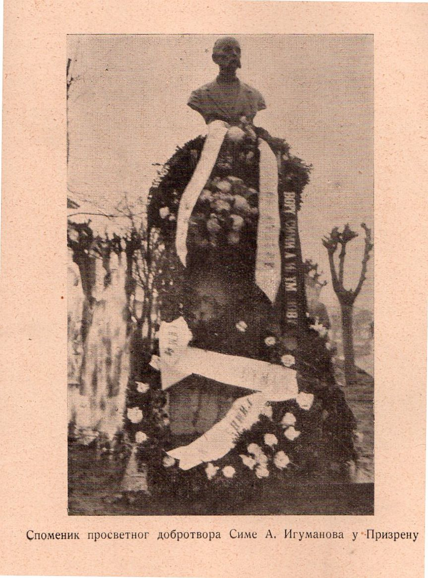 Monument Sima Igumanov in Prizren